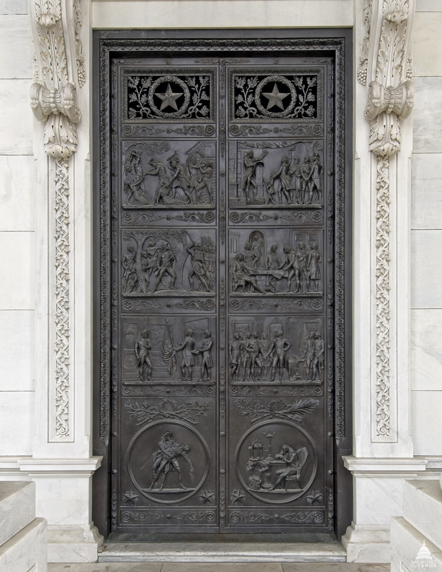 The bronze doors at the east portico entrance of the Capitol's House wing were designed by the American sculptor Thomas Crawford in Rome in 1855–1857. Upon Crawford's death William H. Rinehart executed the models from the sculptor's sketches in 1863–1867. The models were shipped from Leghorn, Italy, in 1867 but remained stored in the Crypt of the Capitol until 1903, when they were cast by Melzar H. Mosman of Chicopee, Massachusetts. The doors were installed in 1905. They are 14 feet 7 inches high and 7 feet 4 inches wide. Each valve consists of three panels and a medallion depicting significant events in American history. The descriptions below start at the top of each valve and proceed downward. This official Architect of the Capitol photograph is being made available for educational, scholarly, news or personal purposes (not advertising or any other commercial use). When any of these images is used the photographic credit line should read “Architect of the Capitol.” These images may not be used in any way that would imply endorsement by the Architect of the Capitol or the United States Congress of a product, service or point of view. For more information visit